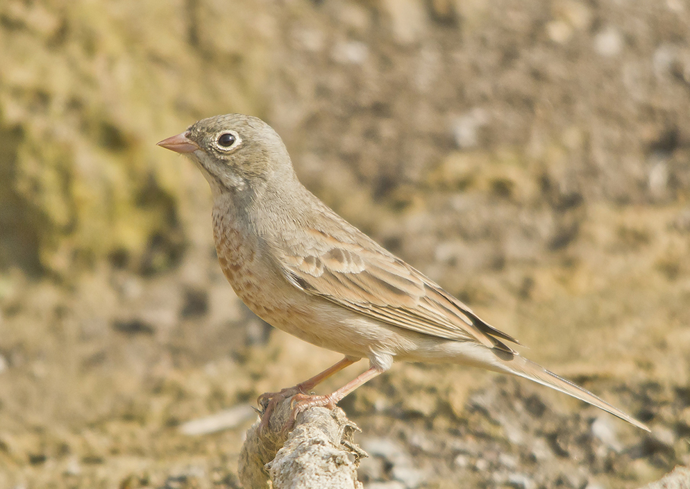 Adult